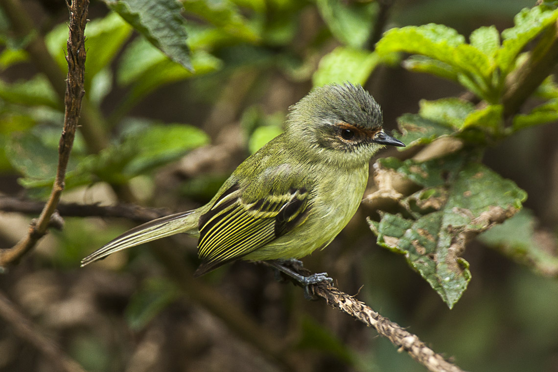 Cinnamon-faced Tyrannulet - Manu NP - Perù_7710